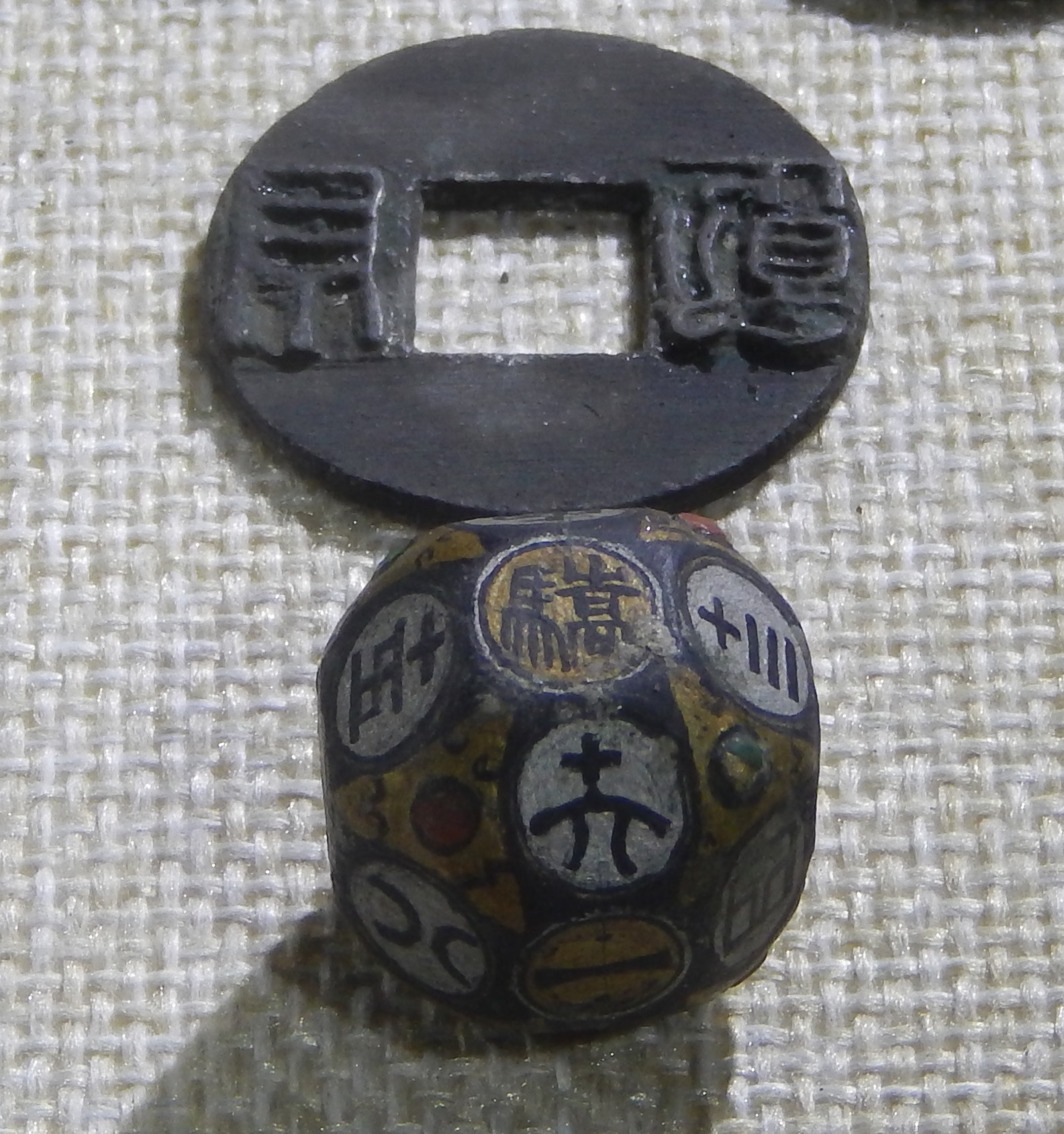 Eighteen-sided dice from the tomb of Dou Wan at Mancheng, Hebei. Western Han. Sixteen faces are inlaid with the numbers one through sixteen, and the top and bottom faces are inlaid with the characters "驕" and "來酒" ("bring on the wine"). A similar 18-sided dice found in the Han tomb at Mawangdui has the characters "驕" and "畏妻" ("scared of your wife") on the top and bottom faces. The dice was used for a drinking game in conjunction with 40 coin-shaped bronze tokens.中文（中国大陆）: 西汉中山靖王刘胜夫人窦绾墓出土的十八面铜骰子。骰子表面错金银，有十八个面，其中十六面分别为一至十六的数码，另外的两面分别刻有“骄”、“酒来”。